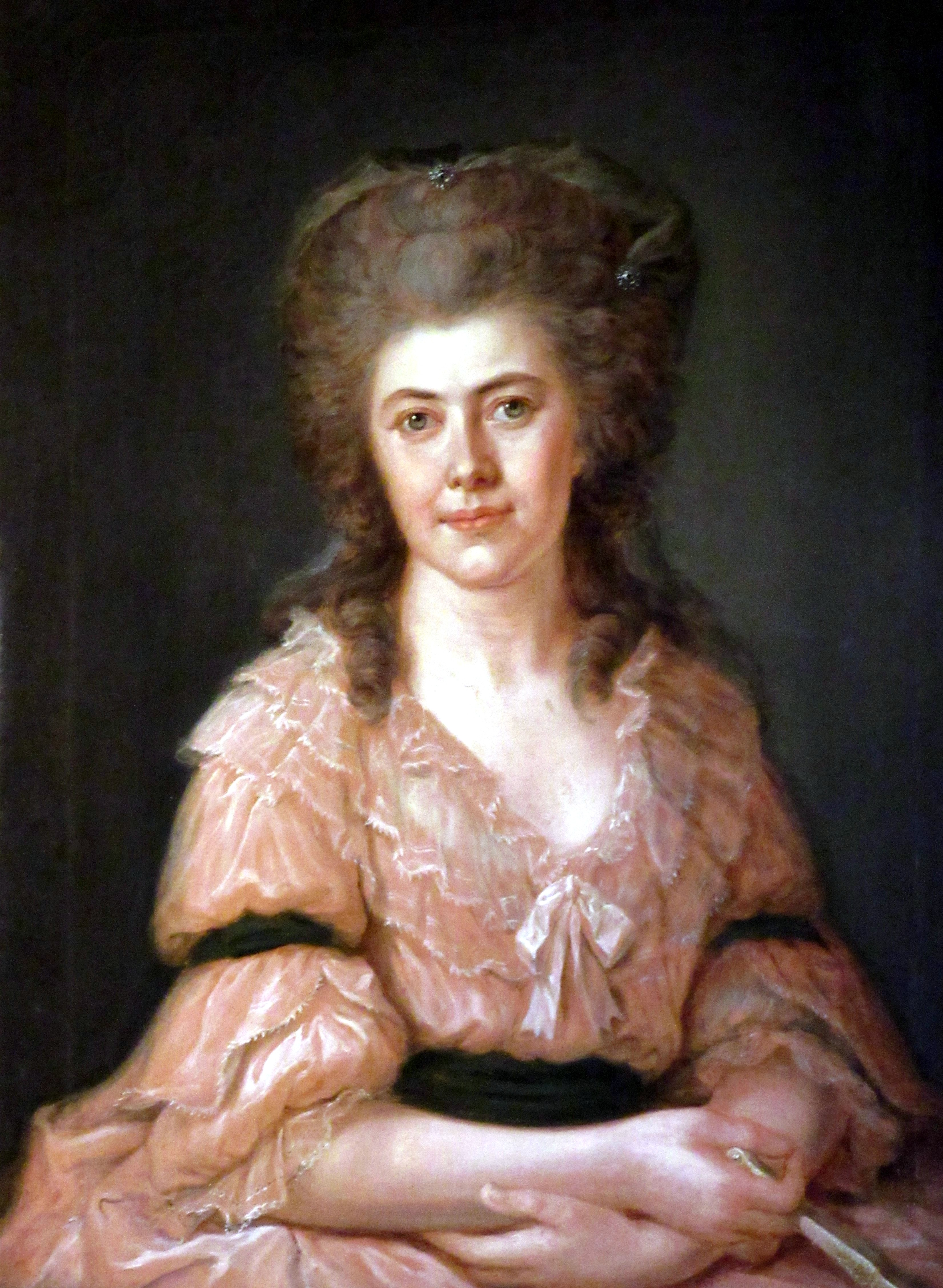 Matthias von der Hude: Cecilie von Brockes, geb. Wibbeking, Behnhaus Lübeck